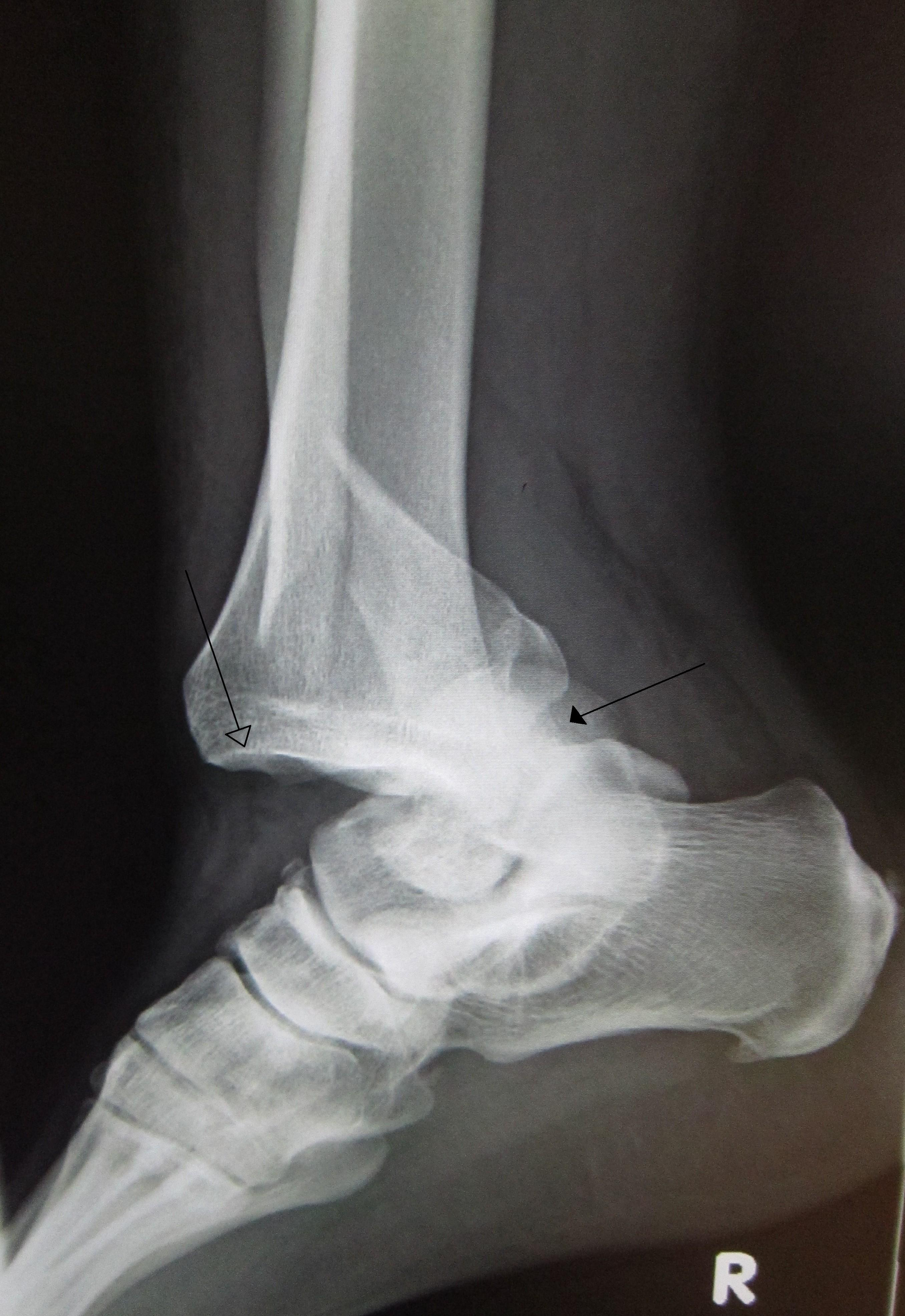 An traumatic dislocation of the tibiotalar joint of the ankle with distal fibular fracture.